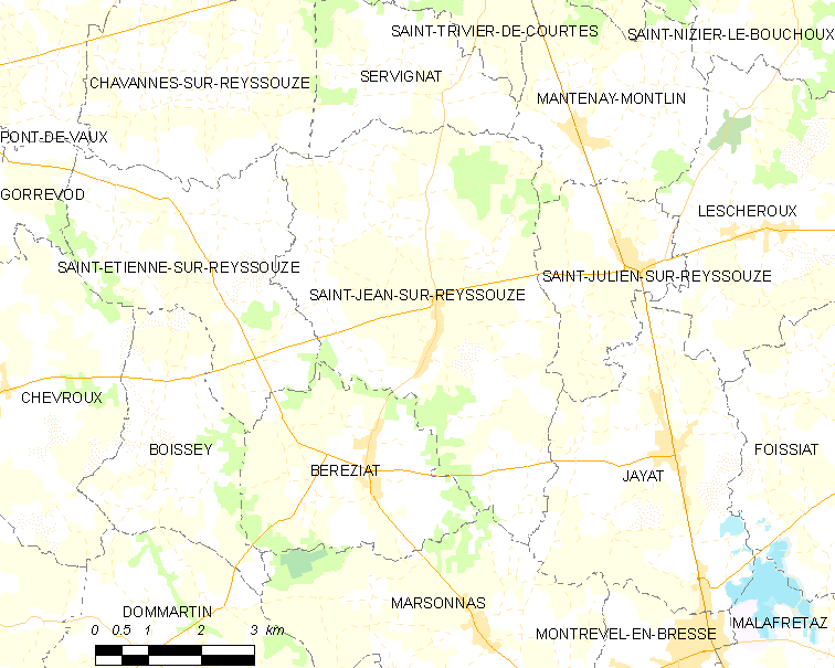 Map of French commune: Saint-Jean-sur-Reyssouze Map commune FR insee code 01364.png